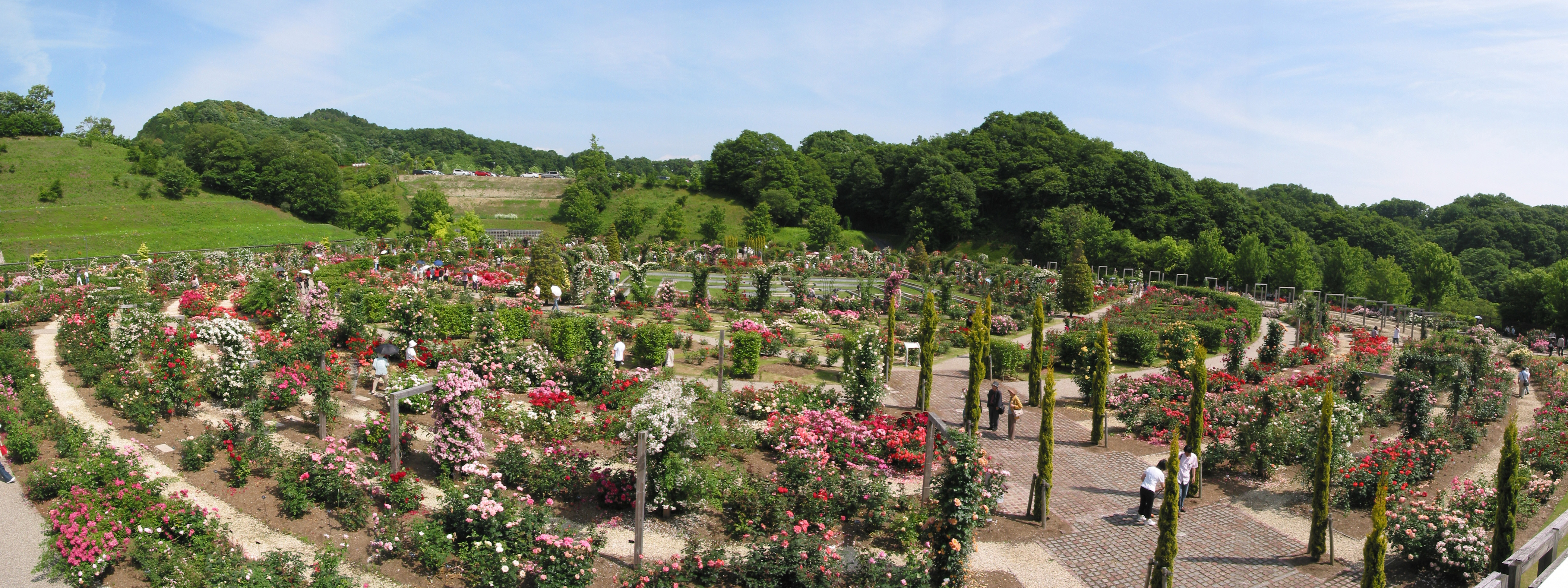 Landscape of the Formal Garden, Flower Festival Commemorative Park Seta Kani, Gifu Japan.